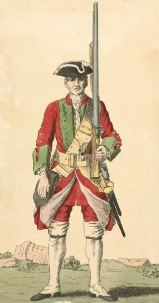 Soldier of the 43rd regiment (1742)